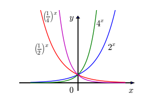 Behavior of the exponential function.